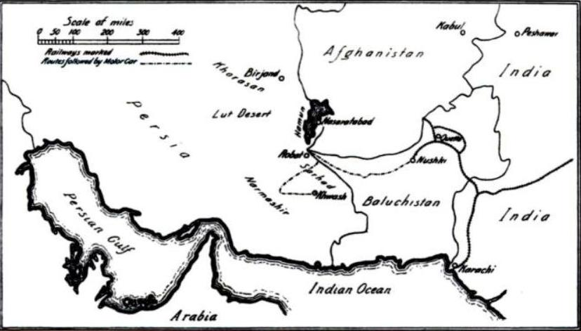 Map showing parts of Persia and Afghanistan, from Reginald Edward Harry Dyer's The Raiders of the Sarhad